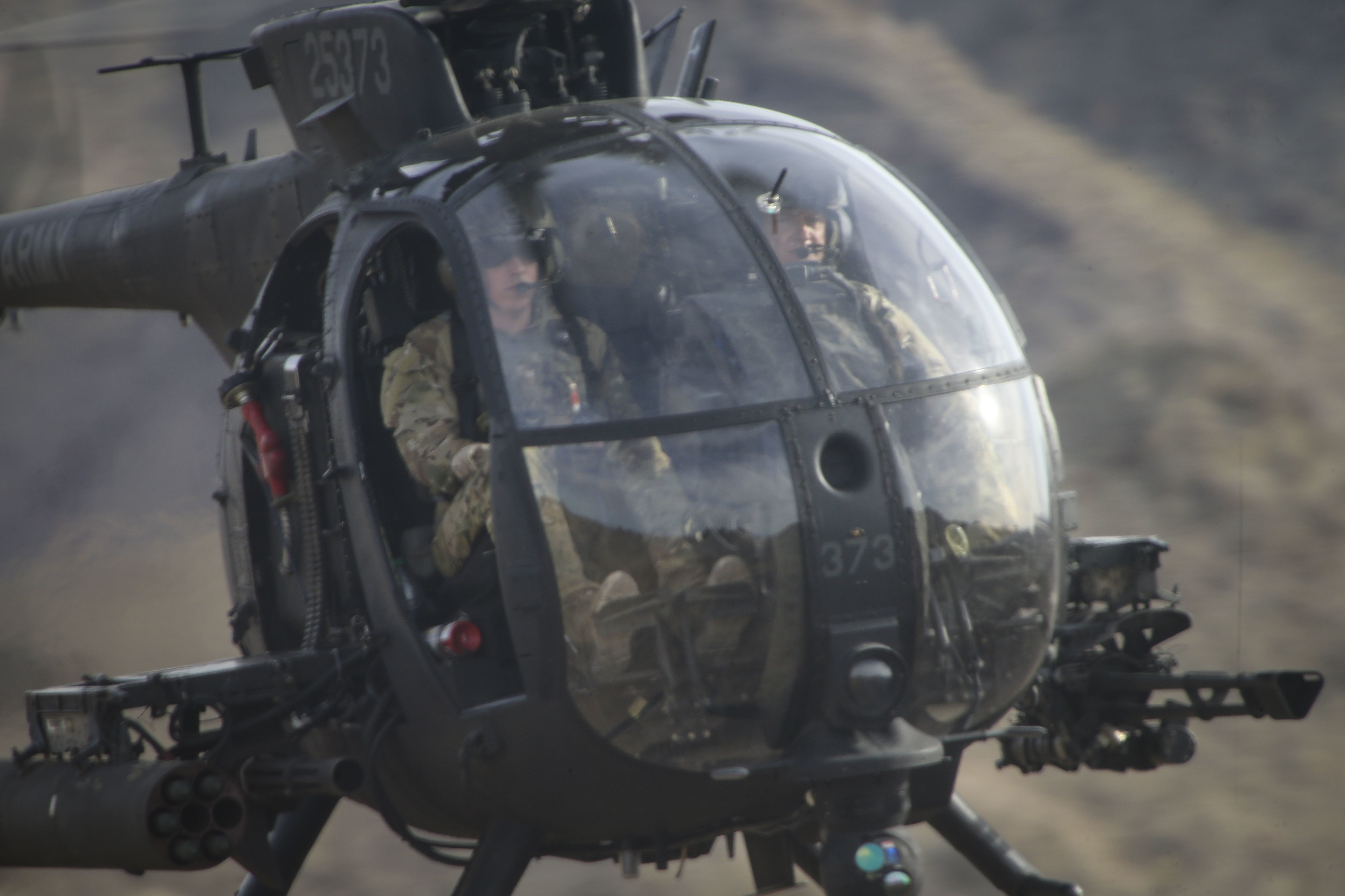 A U.S. Army AH-6 Little Bird in support of Marine Aviation Weapons and Tactics Squadron One (MAWTS-1) flies over designated targets during an offensive air support exercise at Mt. Barrow, Chocolate Mountain Aerial Gunnery Range, Calif., April 5, 2016. The exercise is part of Weapons and Tactics Instructor (WTI) 2-16, a seven-week training event hosted by Marine Aviation Weapons and Tactics Squadron One (MAWTS-1) cadre. MAWTS-1 provides standardized tactical training and certification of unit instructor qualifications to support Marine Aviation Training and Readiness and assists in developing and employing aviation weapons and tactics. (U.S. Marine Corps photograph by SSgt. Artur Shvartsberg, MAWTS-1 COMCAM/Released) Unit: Marine Corps Air Station Yuma Combat Camera